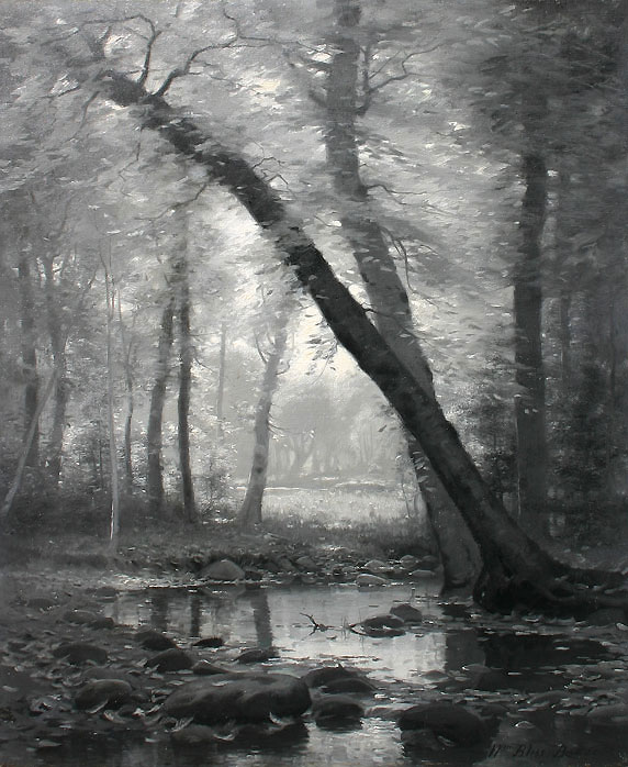 "Dark Forest" by William Bliss Baker (ca.1880).